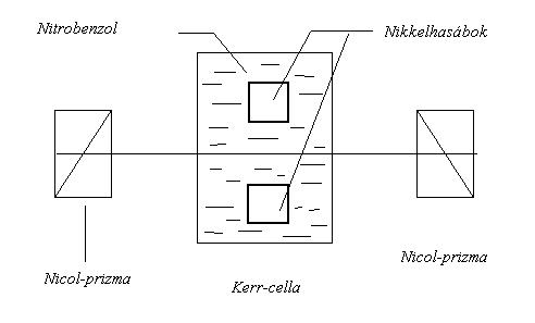 Shamatic graph of Kerr-cell